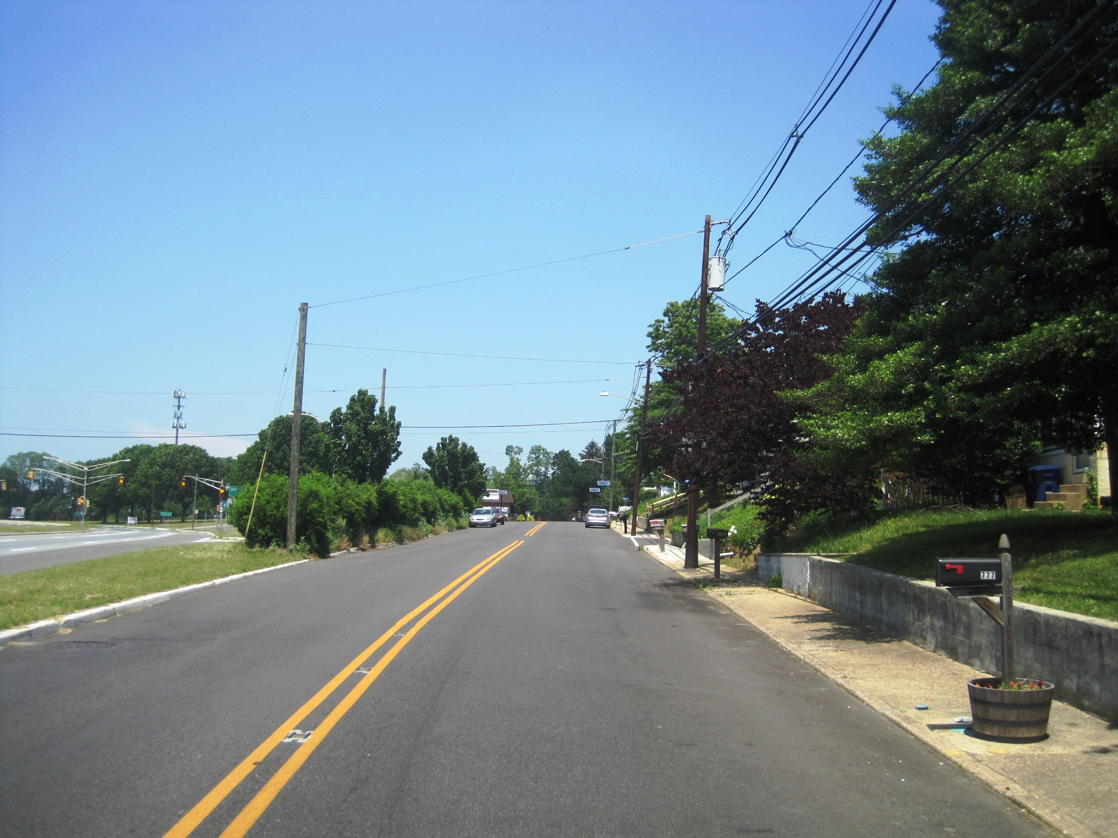 Photograph showing the southern terminus of Mission Road past Groveville Road in Bordentown Township, New Jersey. Mission Road was previously designated New Jersey Route 160. U.S. Route 206 is located to the west (left side of the photo) of this road.